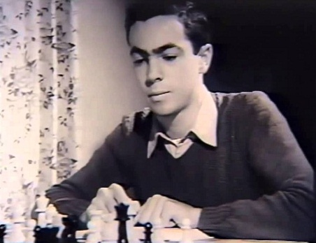 Oscar Panno in his youth